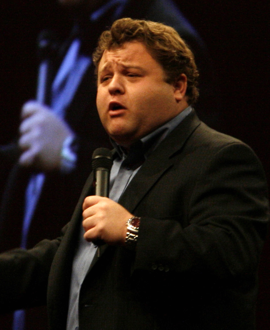 Frank Caliendo, performing in March 2009.